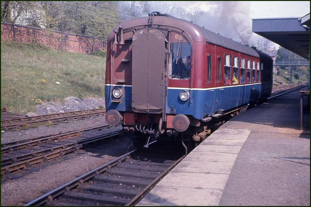 Lisburn railway station (4)